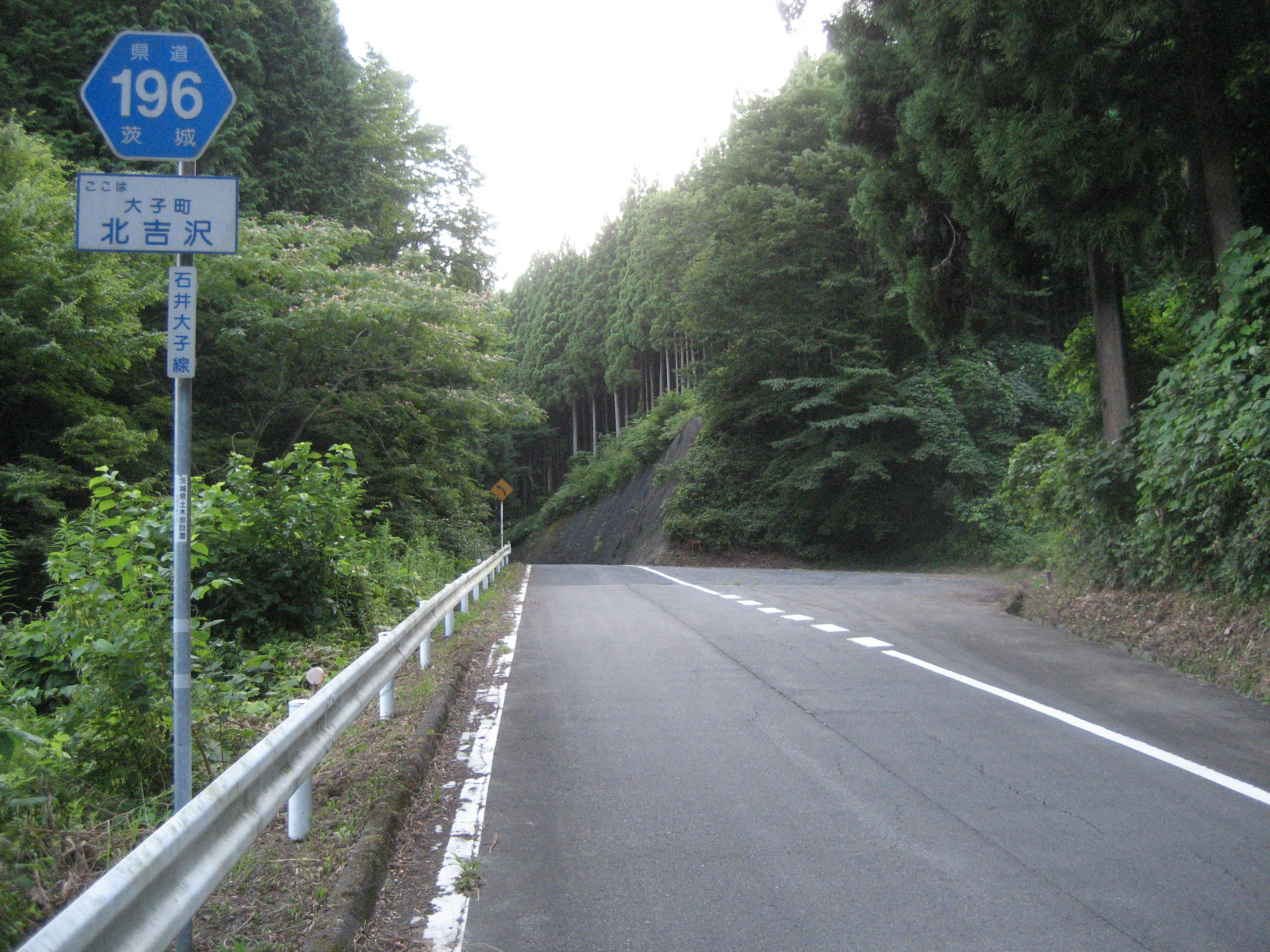 Ibaraki Prefectural Road Route 196 in Daigo Town